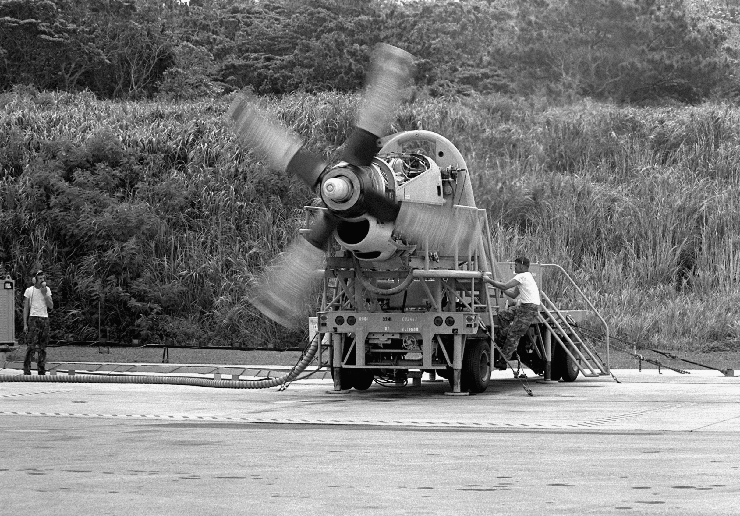 U.S. Marine Corps SSgt. R. McIntosh, an engine mechanic, climbs aboard the mobile test unit to check the operation of a Allison T56 engine at Marine Corps Air Station Futenma, Japan, on 12 August 1982. The engine belonged to a KC-130 Hercules aircraft.